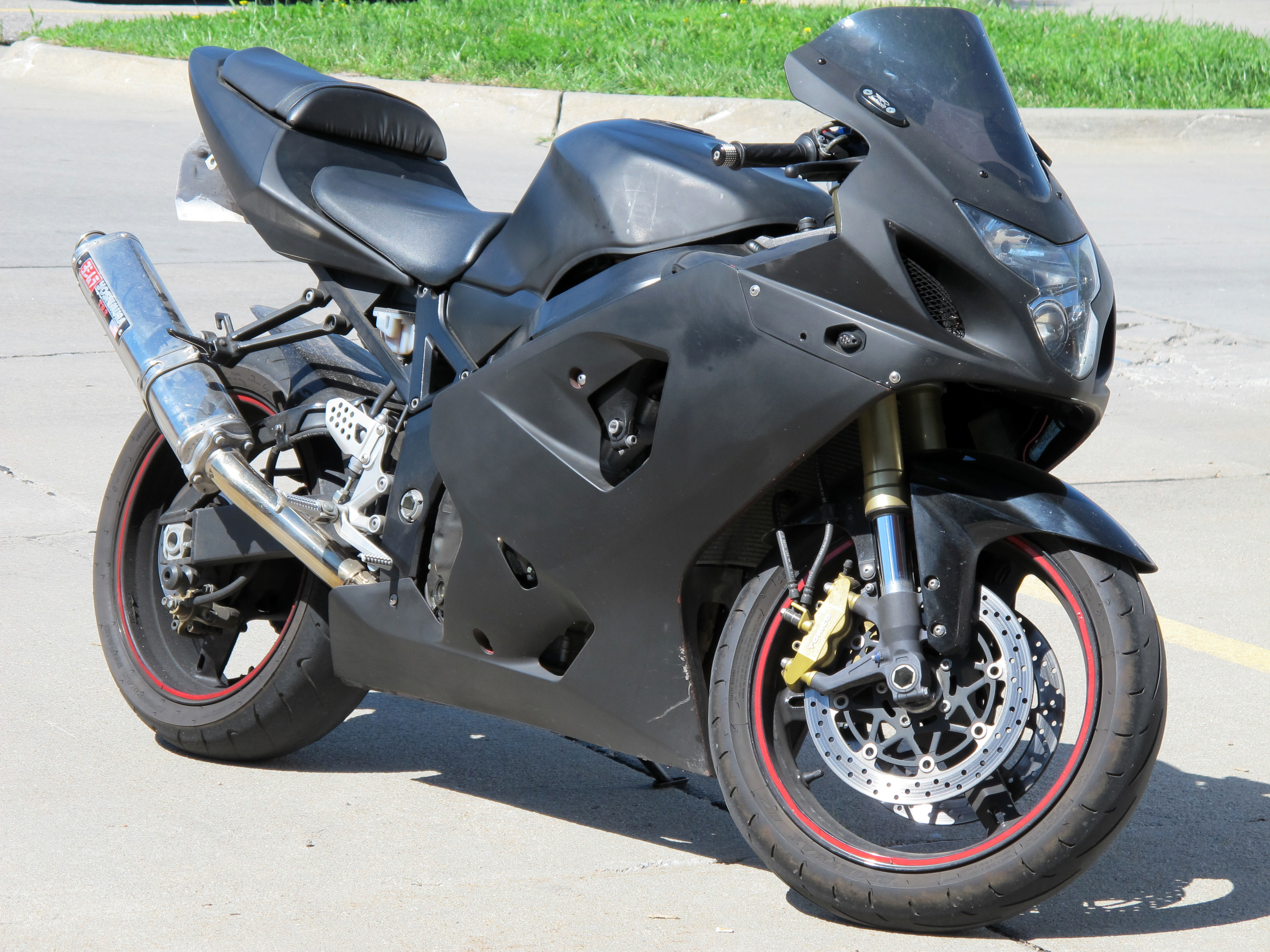 Photo of a Suzuki GSX-R 750, as seen in Lincoln, Nebraska (USA). Custom black; customized, year unknown (most likely a 2004 -K4 or 2005 -K5 model year).